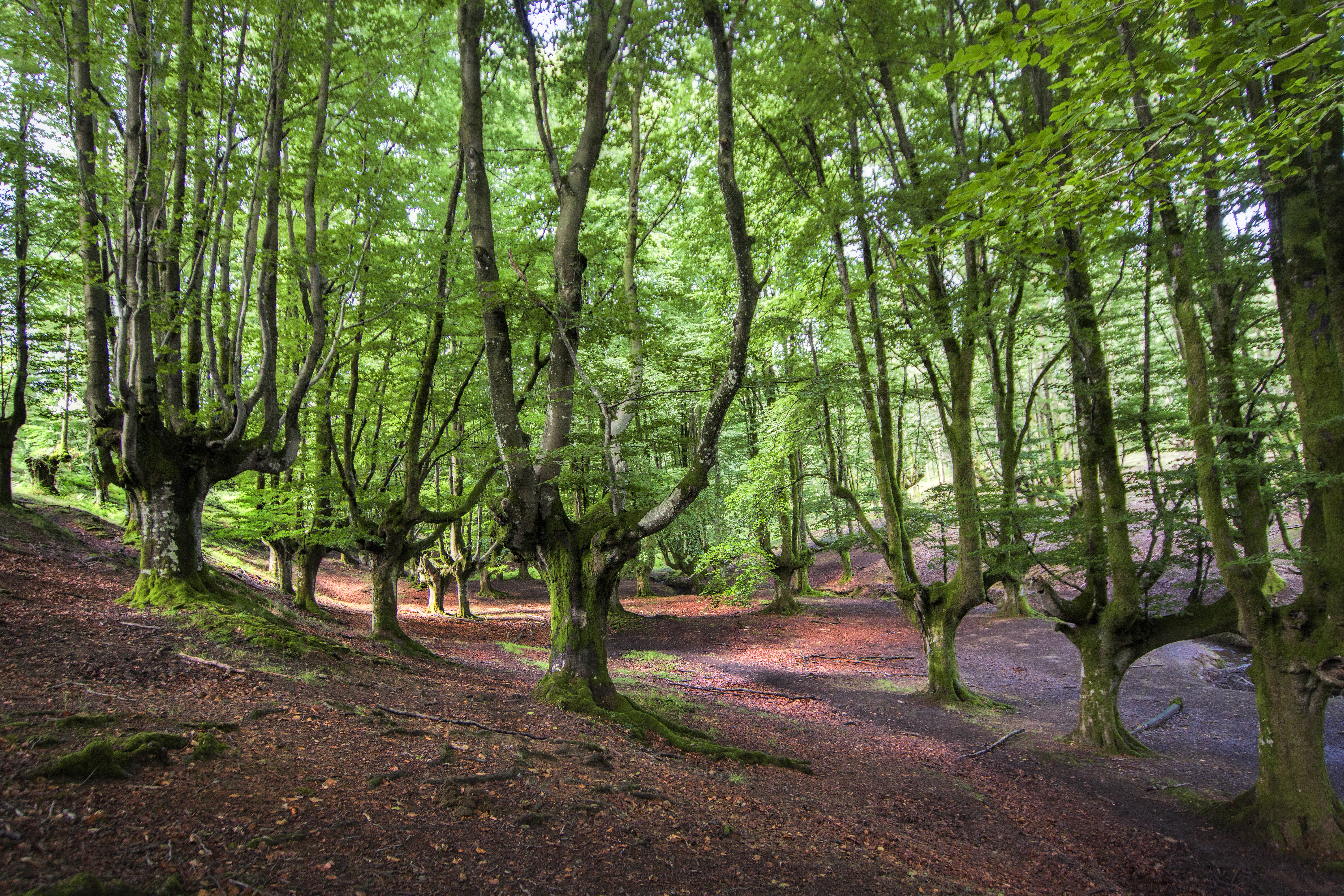 Hayedo Otzarreta, in the Gorbea Natural Park This is a photography of a Site of Community Importance in Spain with the ID: ES2110009. Natura2000 entry, EEA entry